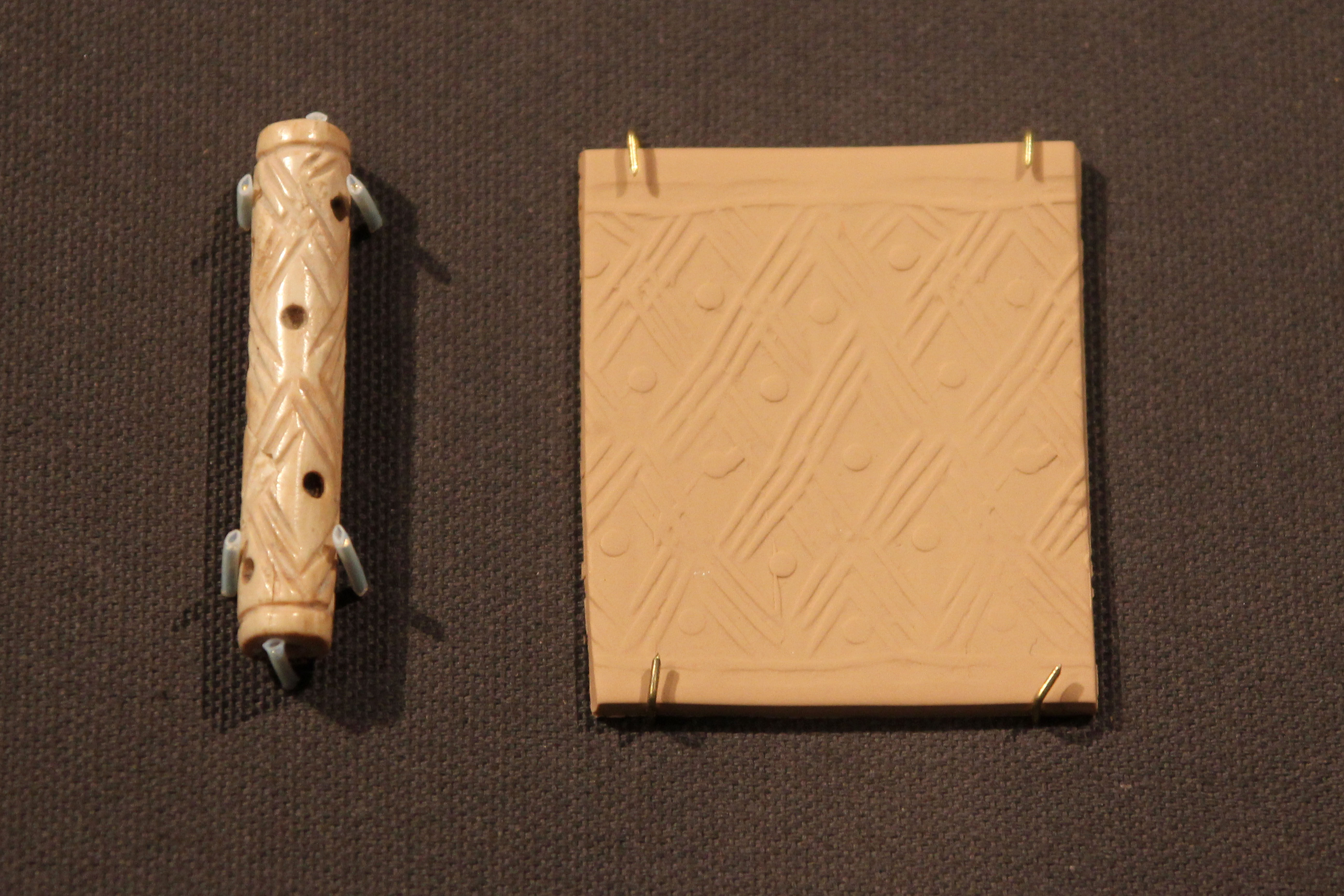 Cylinder seal from the Jemdet Nasr period (3100-2900 BC) Find location: Khafajah Houses I (Iraq) Current location: Oriental Institute Museum, Chicago (USA)